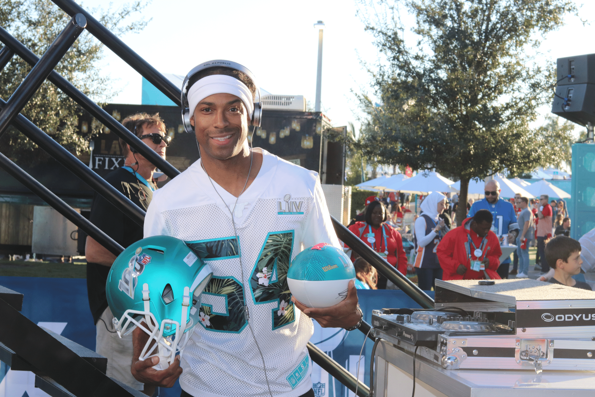 DJ Will Gill Superbowl LIV